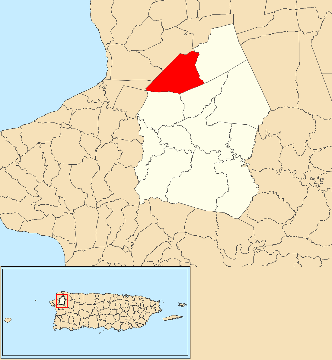 Centro, Moca, Puerto Rico locator map